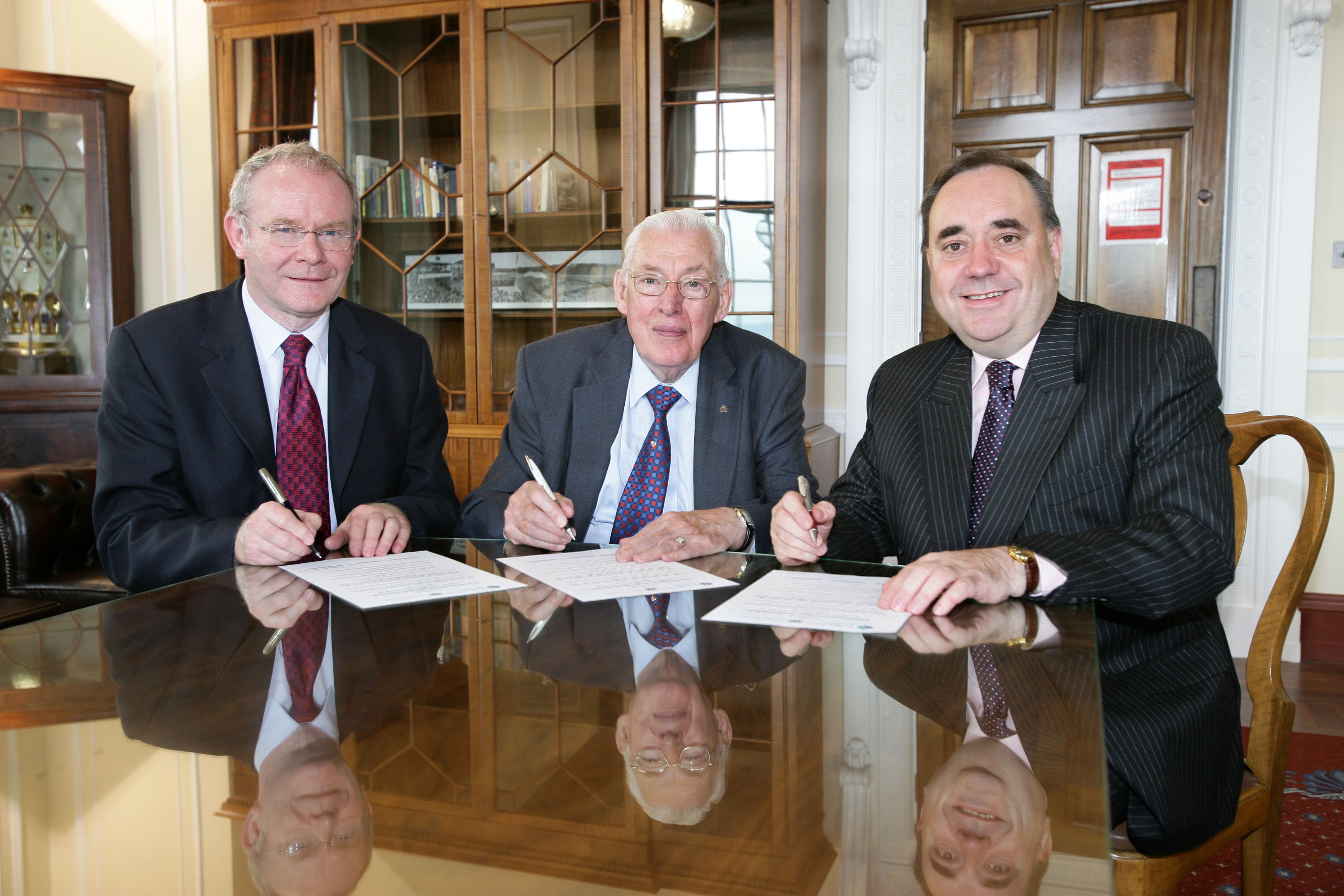 Signing of the Joint Agreement between Scotland and Northern Ireland.